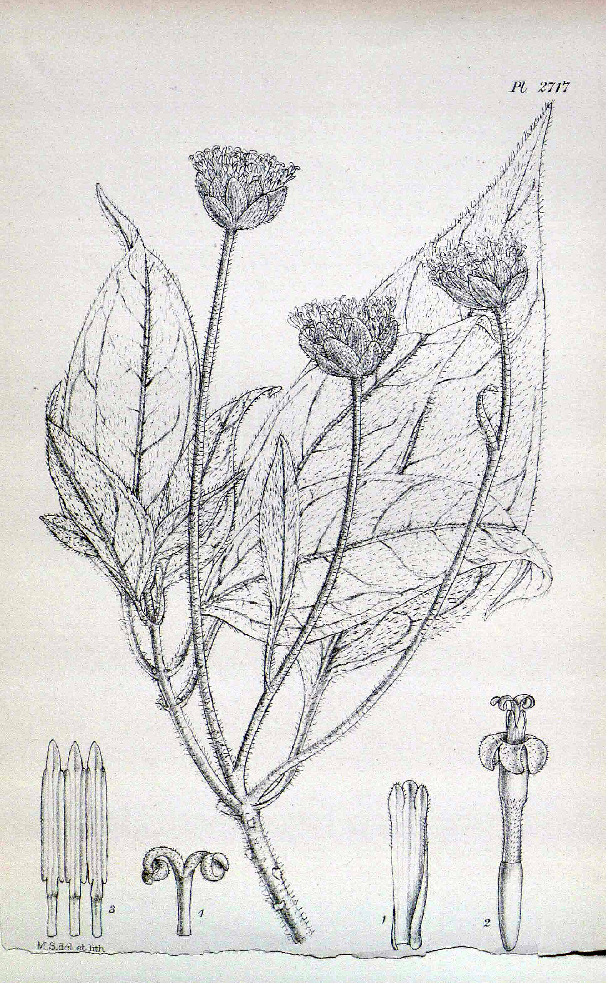 Plate 2717 from "Hooker's Icones plantarum" v28 (1905) depicting Scalesia pedunculata details